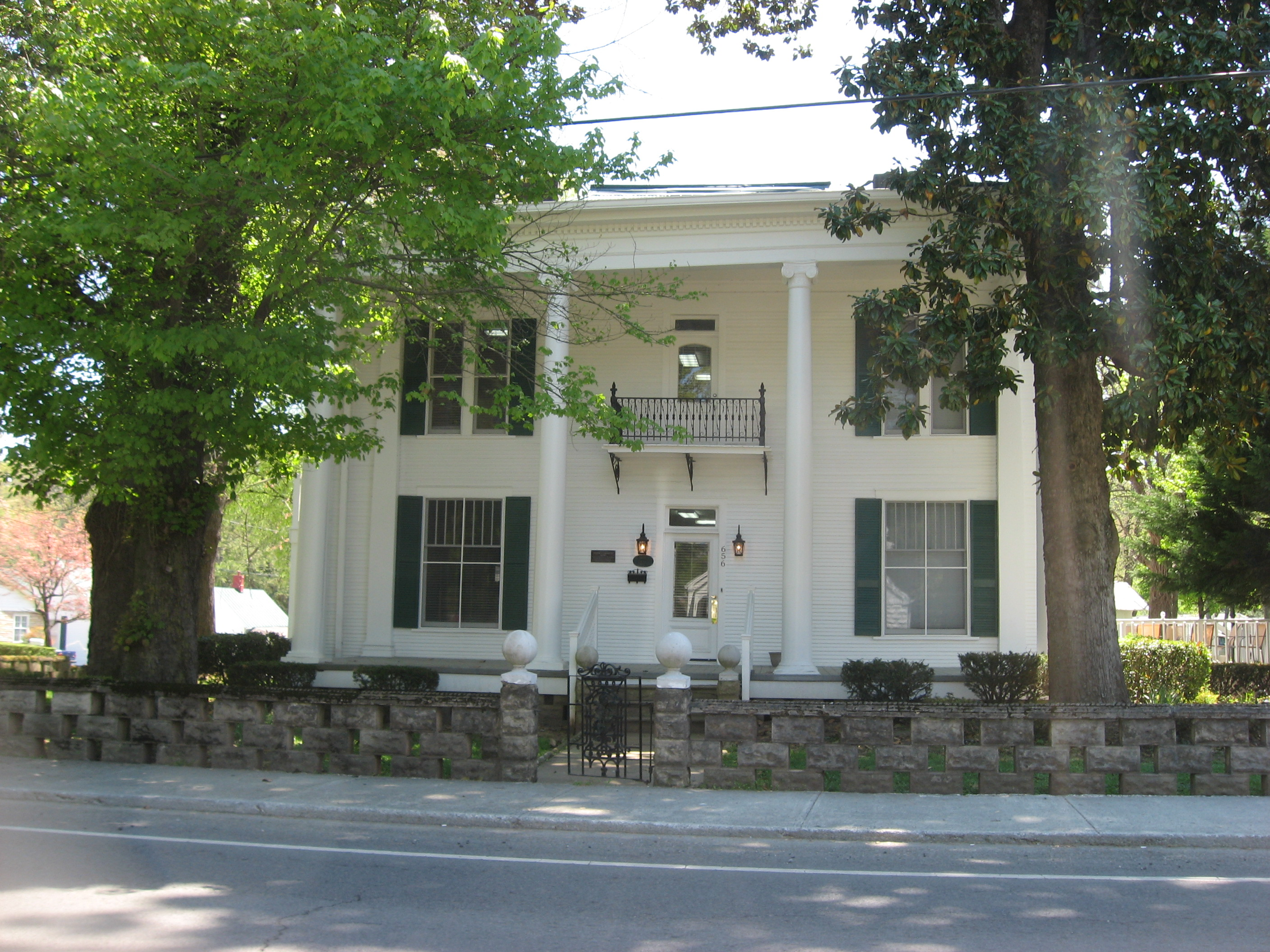 Front of the Dr. Walter Thomison House, located at 656 Market Street in Dayton, Tennessee, United States. Built in 1890, it is listed on the National Register of Historic Places.